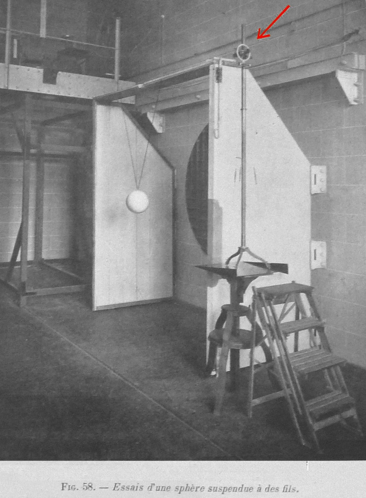 Device for measuring the drag of a sphere by its recoil. The red arrow indicates the collimated telescopic sight that measures this recoil.